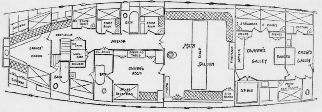 Meteor III schooner yacht plan layout